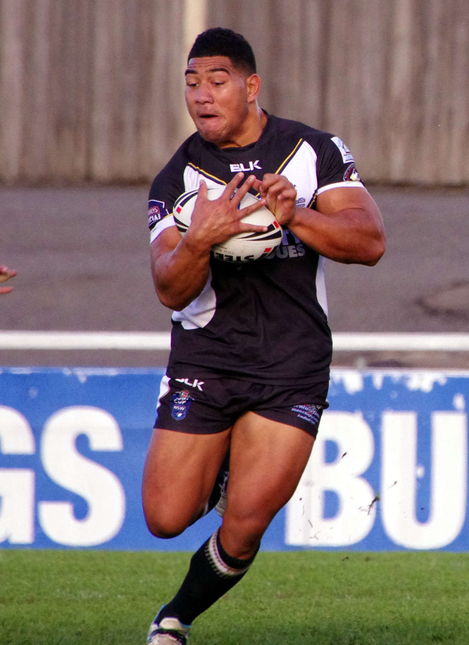 Kelepi Tanginoa